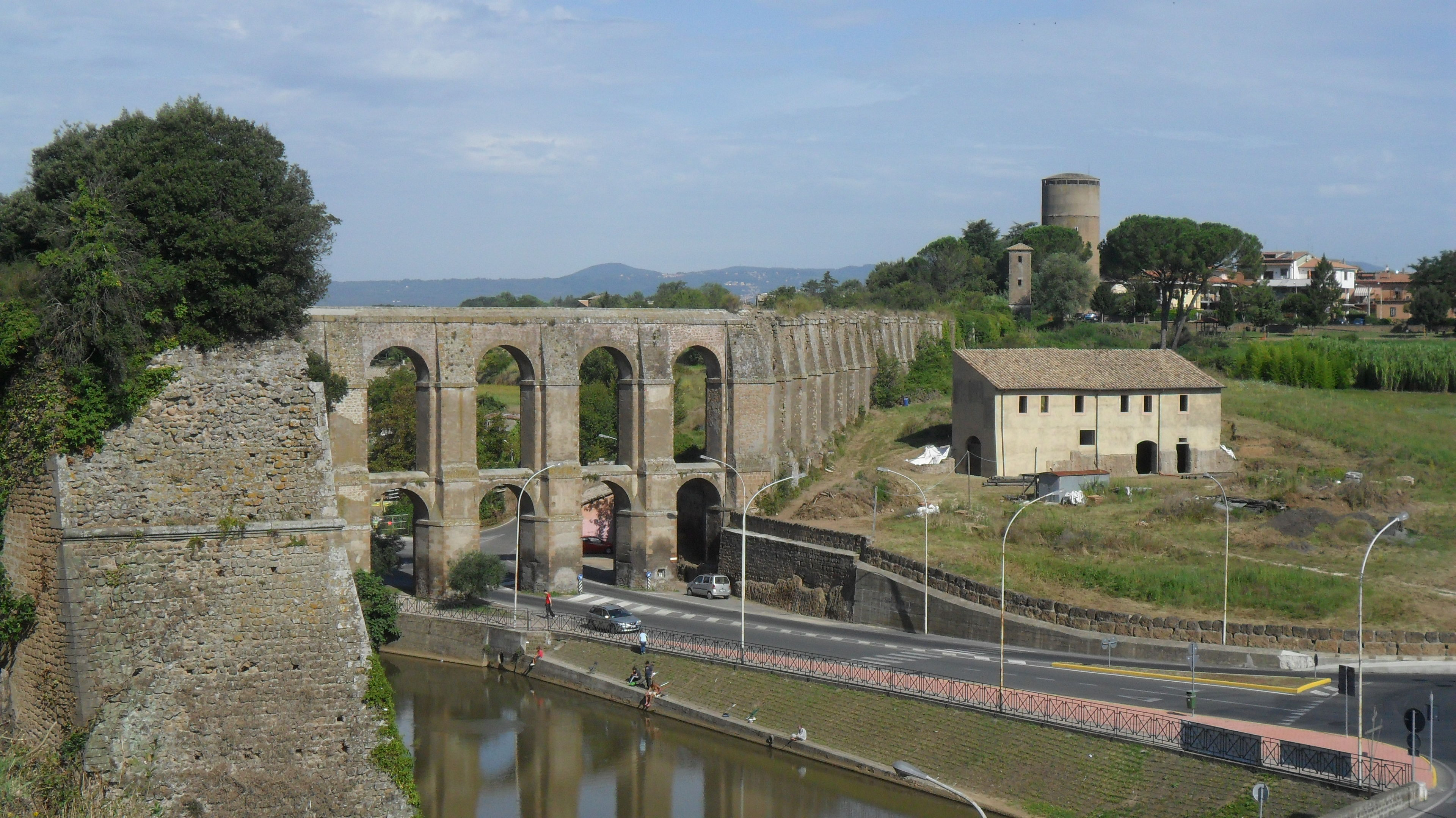 The acqueduct of Nepi